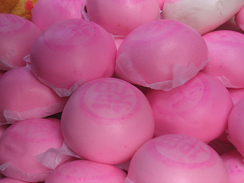 Pink bun Hong Kong